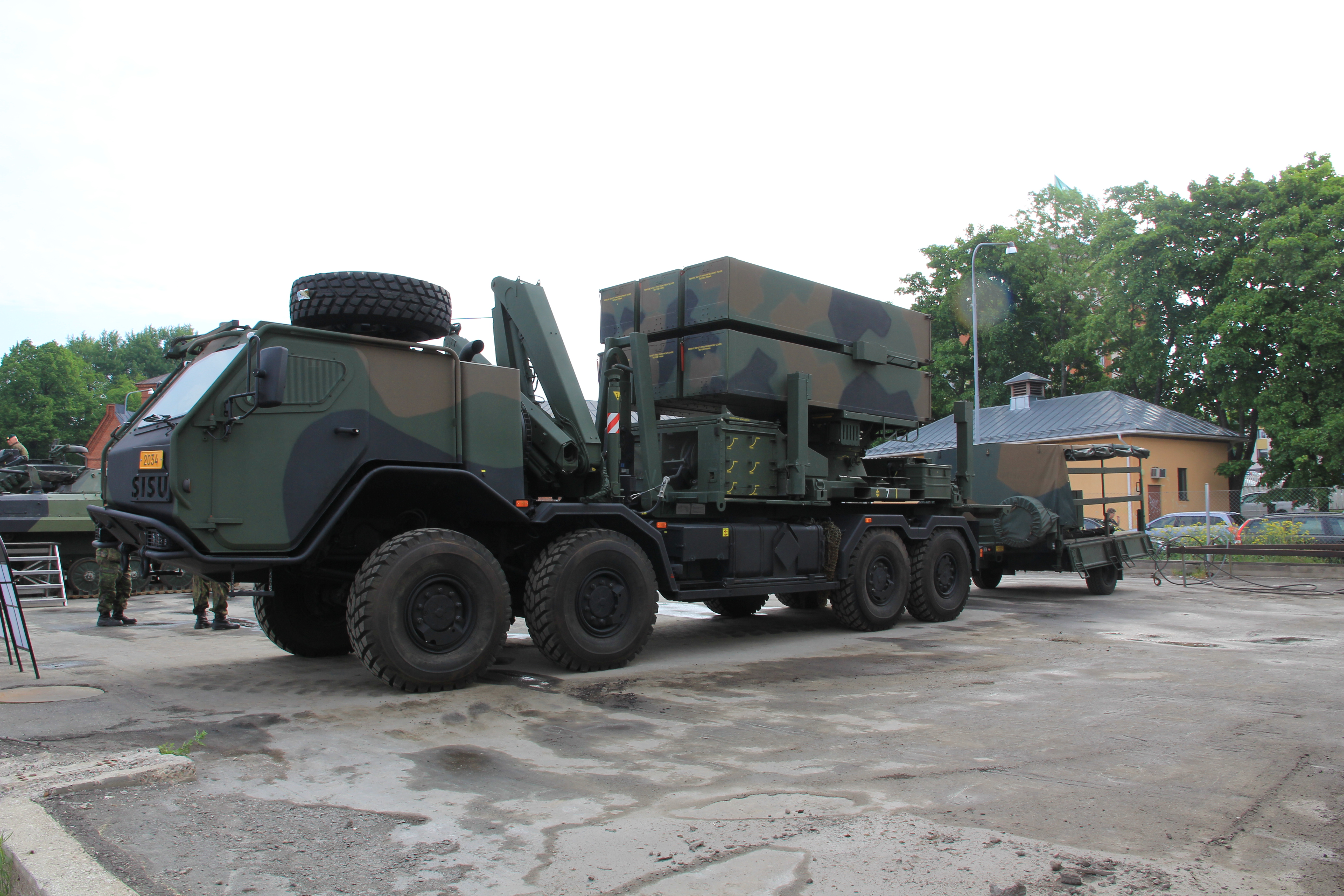 NASAMS II surface to air missile launcher on Sisu E13TP 8×8 truck on display during Finnish Defence Forces 2013 Flag day in Ekenäs harbour.